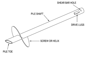 Illustrative diagram of a Screwpile